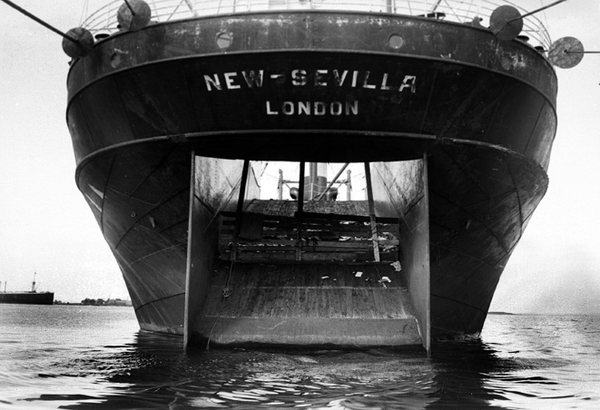 Chr. Salvesen's whaling factory "New Sevilla", ex. "Runic" (1900)